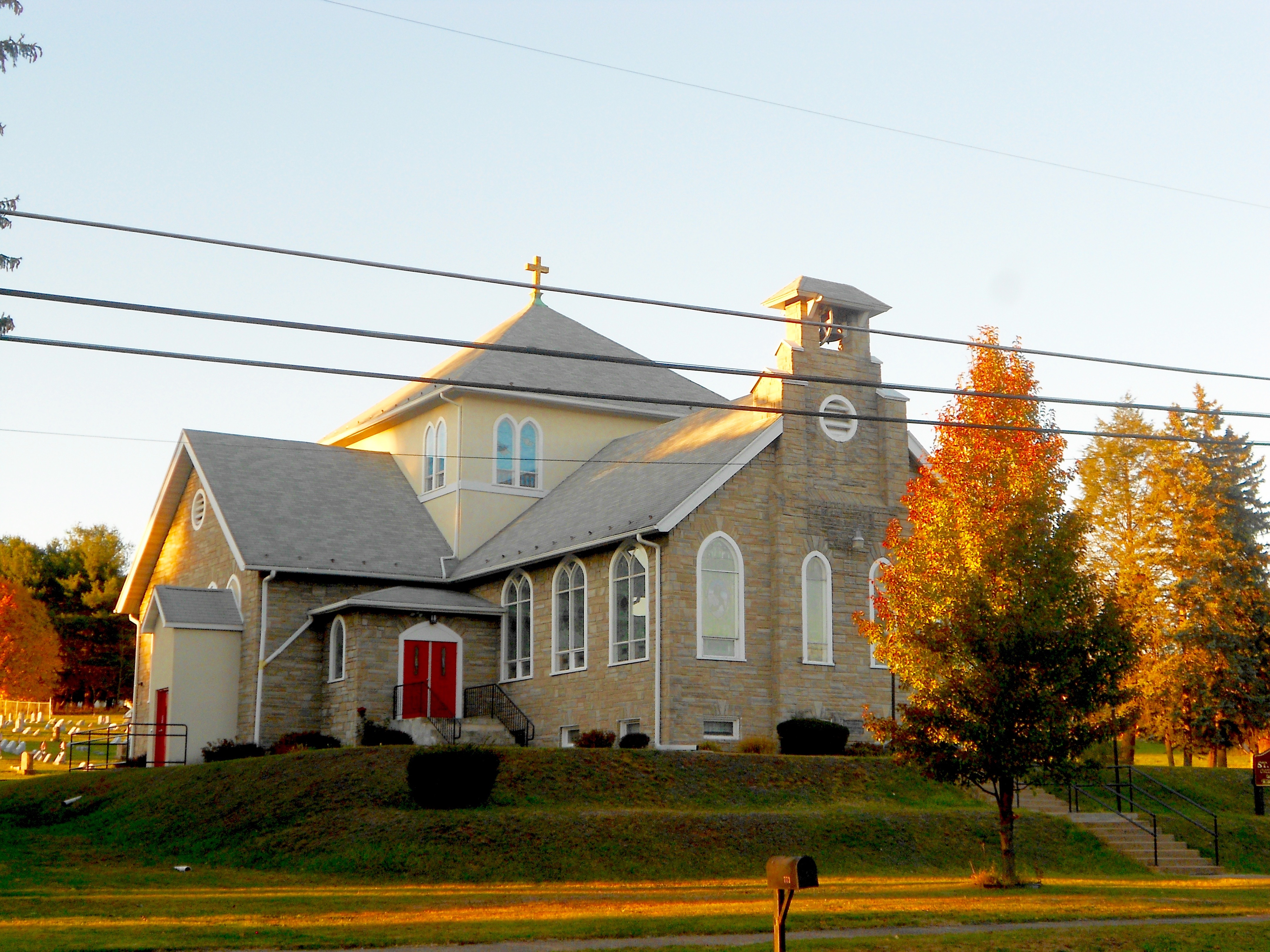 St. John's United Church of Christ Church in Butler Township, Luzerne County, Pennsylvania, on St. John's Road. There are 2 adjacent churches named St. John's, the other is Lutheran. The churches formed in 1799 as a Union Church - the Lutherans got the exclusive use of the church one Sunday, then the Reformed Church (later evolved into UCC in some places) got the exclusive use the next.